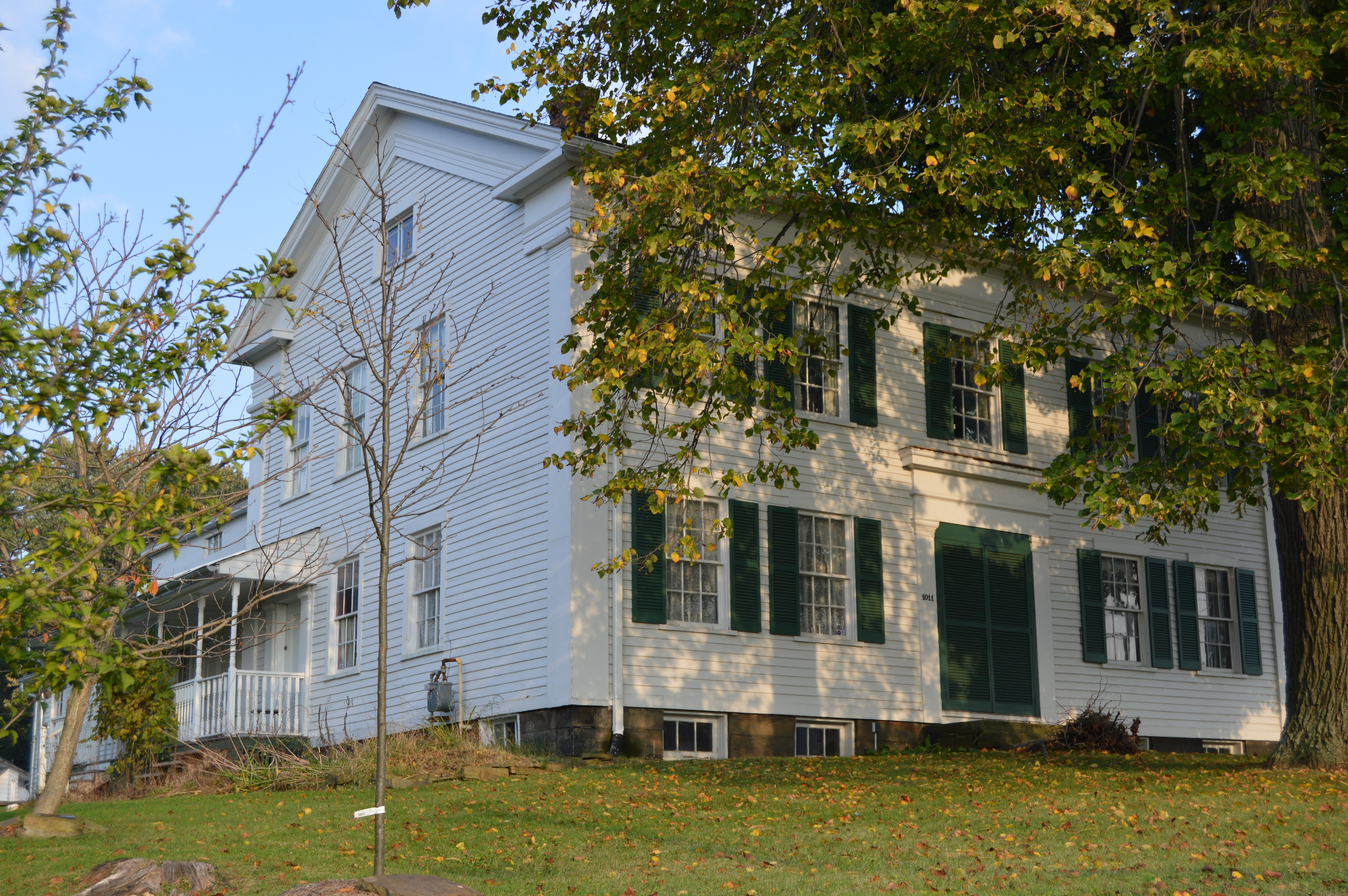 Front and northern side of the Henry Barnhisel House, located at 1011 State Street (U.S. Route 422) in Girard, Ohio, United States. Built in 1840, it is listed on the National Register of Historic Places.